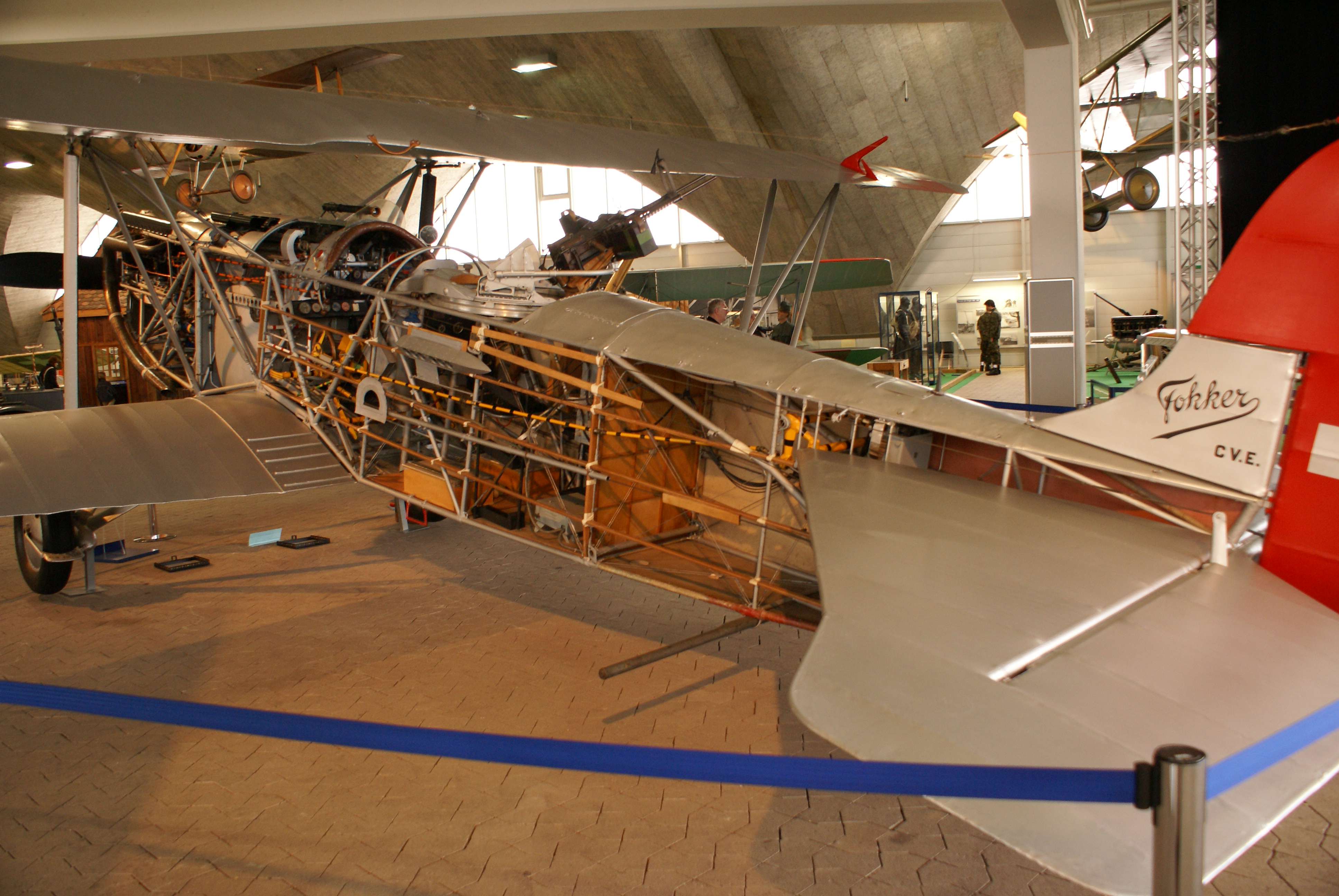 Cutaway replica of a Fokker C.V-E light reconnaissance and bomber biplane aircraft of the Swiss Army Air Corps.